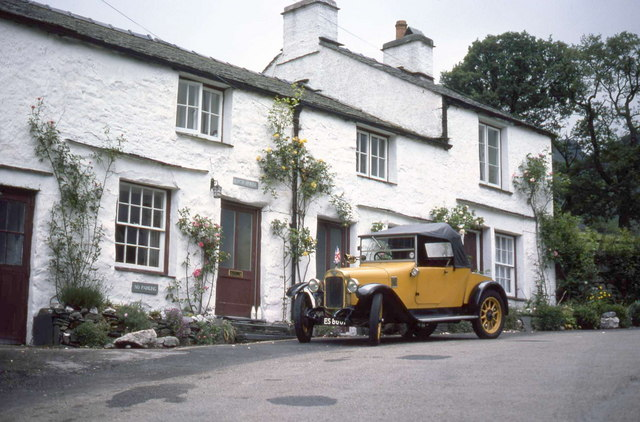 Little Langdale village The cottage, the car and the location seem to complement each other beautifully